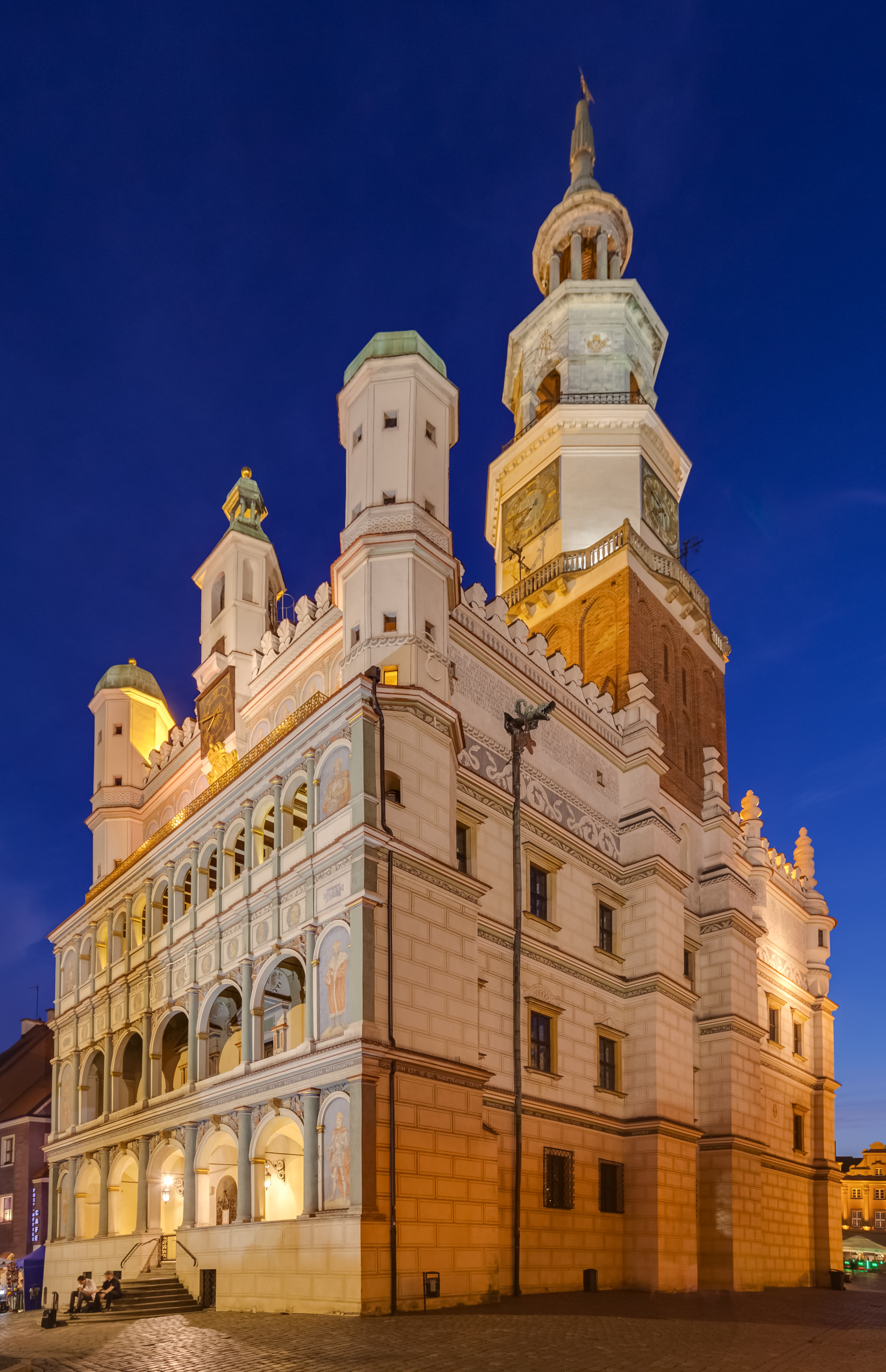 Town hall, Poznan, Poland